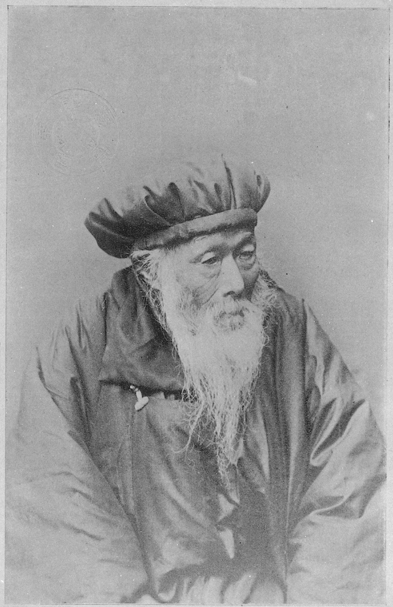 Portrait of Ito Keisuke (伊藤圭介, 1803 – 1901)